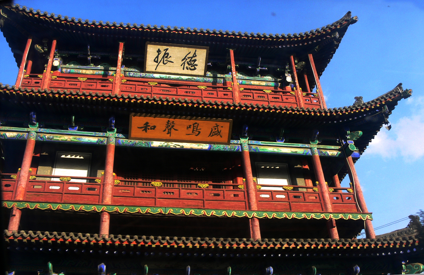 Datong city drum tower, a Qing dynasty architecture